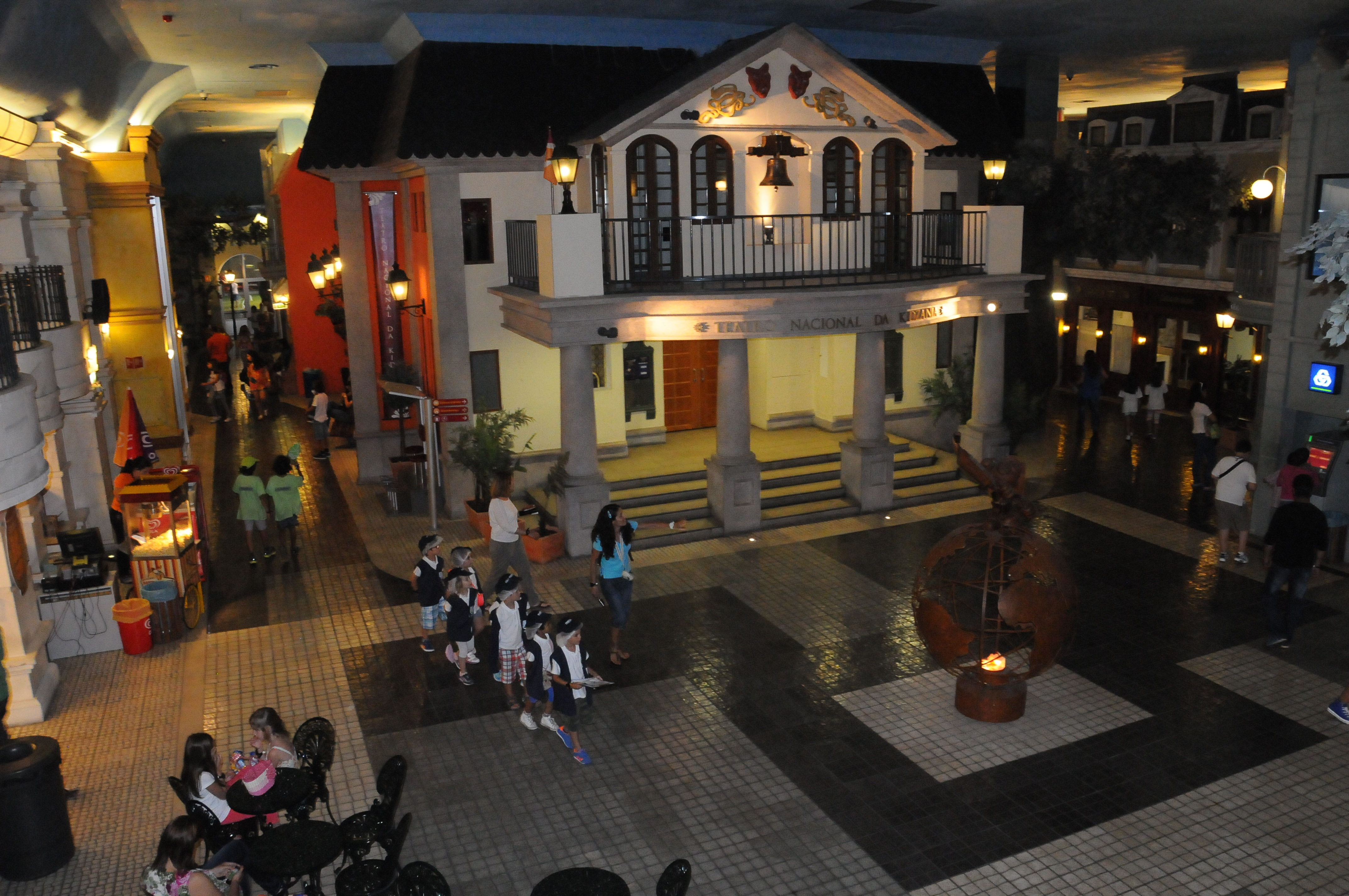 Kidzania in Dolce Vita Tejo, Amadora Portugal.